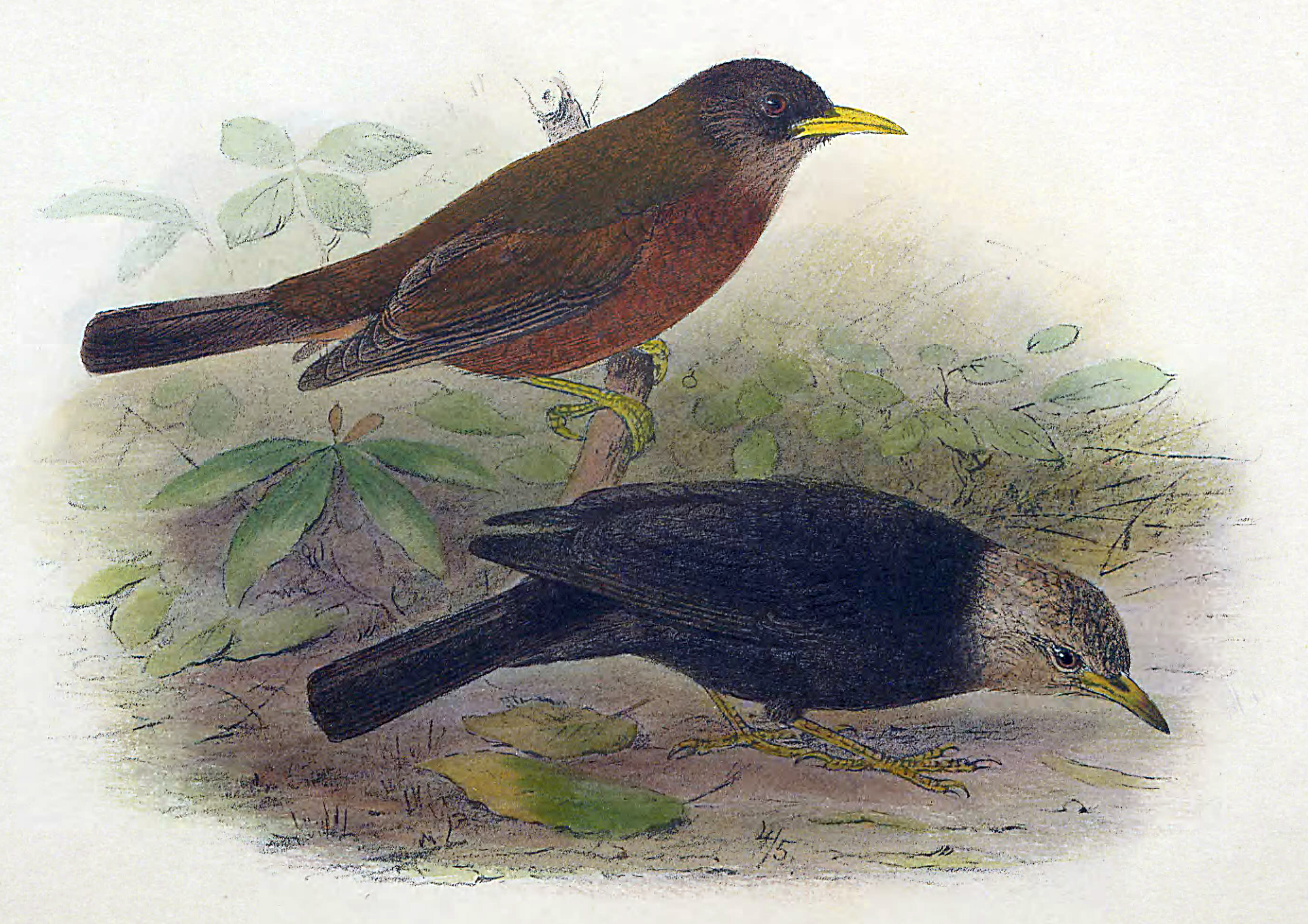 Hand coloured lithograph (1928) of (Turdus vinitinctus, above). Which is now a synonym of the Lord Howe Island Thrush (Turdus poliocephalus vinitinctus). From The Birds of Australia (1910-28) by Gregory Macalister Mathews (1876-1949). Artwork by Henrik Grönvold (1858–1940) a Danish bird illustrator.